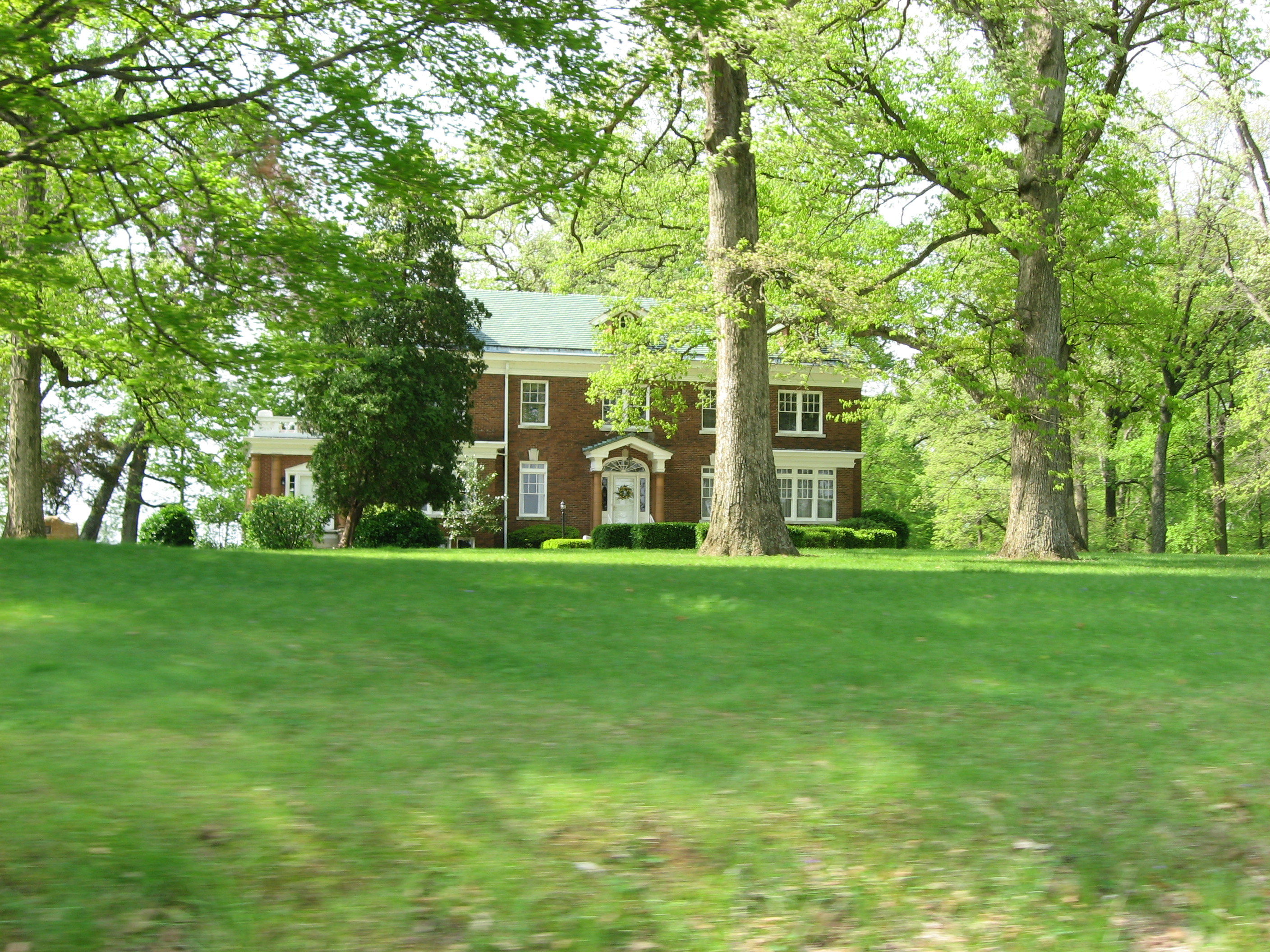 Front of the house at Shadowwood, located at 6451 E. Wheatland Road west of Wheatland in Palmyra Township, Knox County, Indiana, United States. Built in 1917, it and several related buildings are listed together on the National Register of Historic Places.